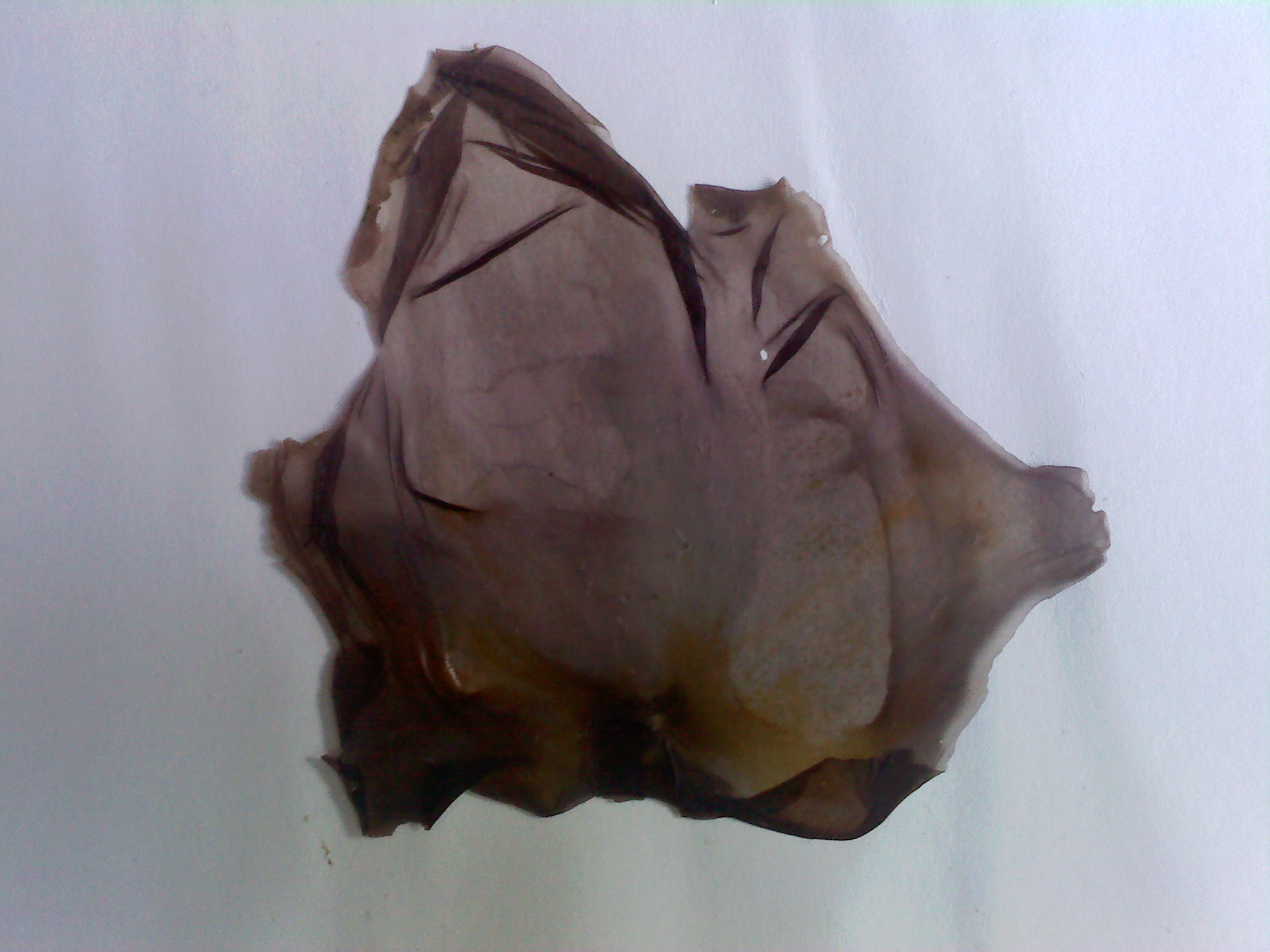 Picture of a Porphyra umbilicalis (dry, on a sheet of paper)